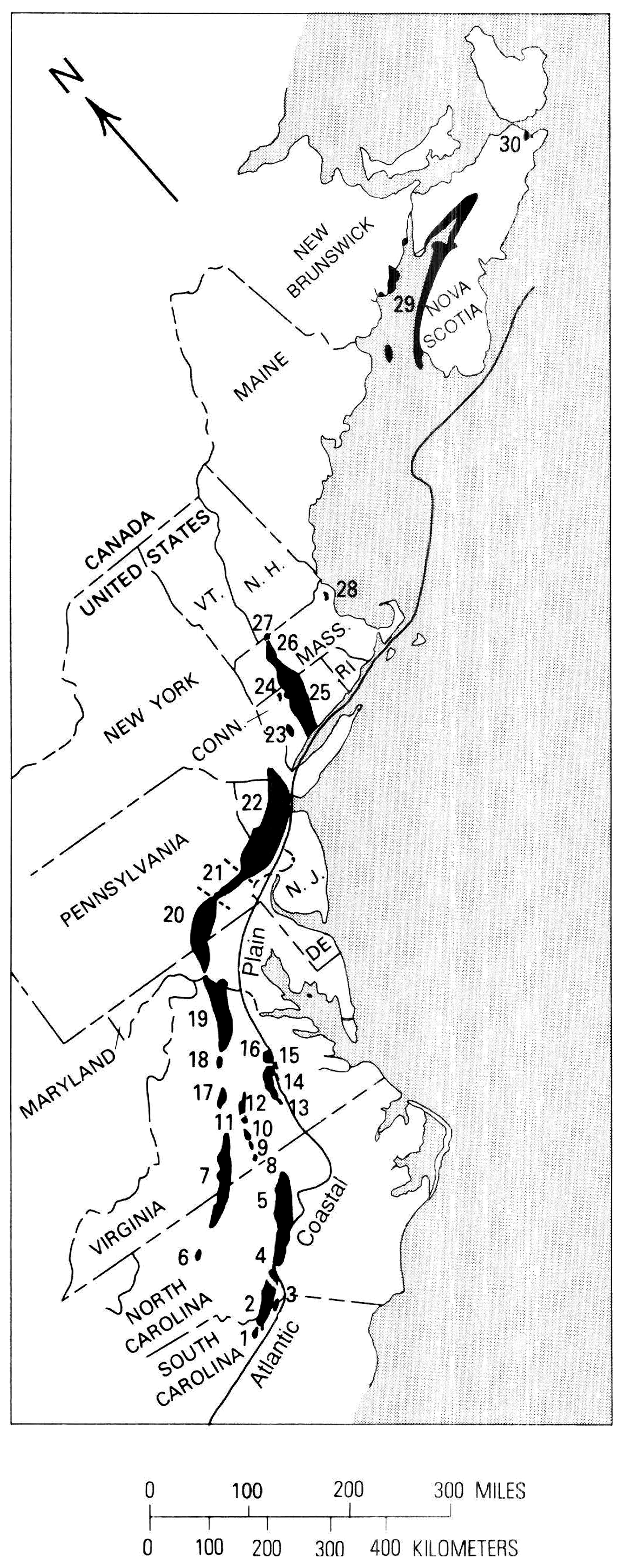 Original image caption: Exposed early Mesozoic basins of eastern North America (Powers, 1916; Stevenson, 1960; King and Beikman, 1974). EXPLANATION Crowburg basin, South Carolina Wadesboro basin, South Carolina-North Carolina Ellerbe basin, North Carolina Sanford basin, North Carolina Durham basin, North Carolina Davie County basin, North Carolina Dan River-Danville basin, North Carolina-Virginia Scottsburg basin, Virginia Randolph basin, Virginia Roanoke Creek basin, Virginia Briery Creek basin, Virginia Farmville basin, Virginia Richmond basin, Virginia Flat Branch basin, Virginia Deep Run basin, Virginia Taylorsville basin, Virginia Scottsville basin, Virginia Barboursville basin, Virginia Culpeper basin, Virginia-Maryland Gettysburg basin, Maryland-Pennsylvania The narrow neck of the Newark-Gettysburg basin, Pennsylvania Newark basin, Pennsylvania-New Jersey-New York Pomperaug basin, Connecticut Cherry Brook outlier, Connecticut Hartford basin, Connecticut-Massachusetts Deerfield basin, Massachusetts Northfield basin, Massachusetts Middleton basin, Massachusetts Fundy basin, New Brunswick-Nova Scotia Chedabucto Bay, Nova Scotia